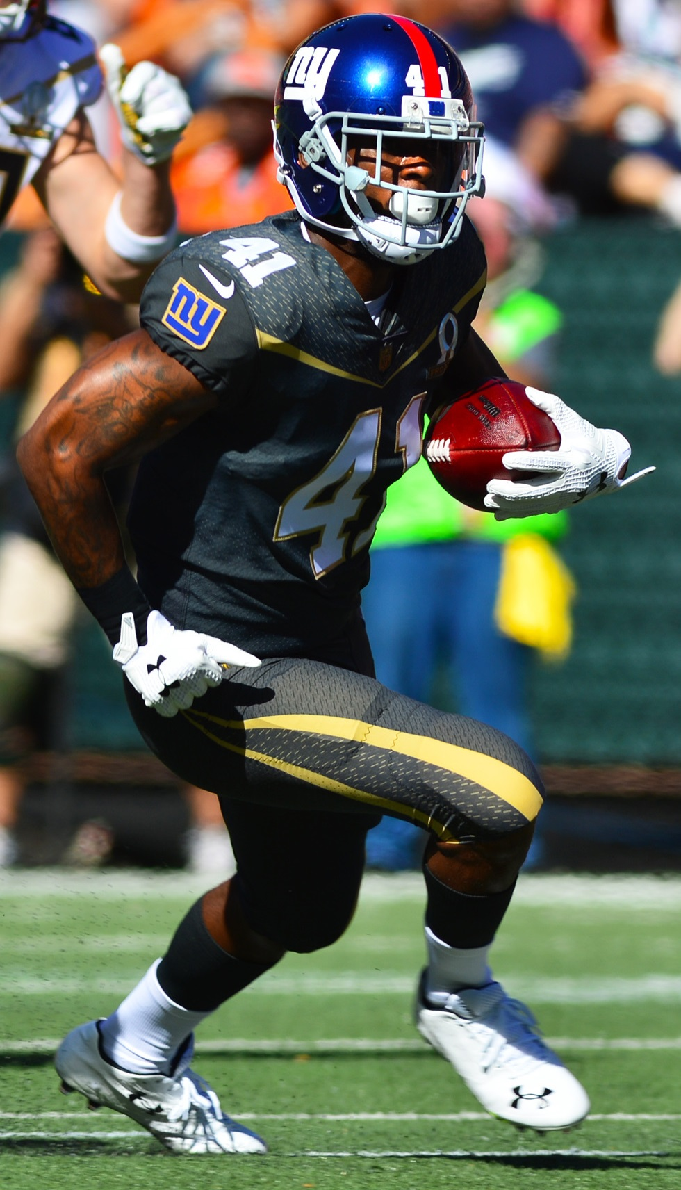 Dominique Rogers-Cromartie, Team Irvin cornerback, traverses the field after an interception during the 2016 Pro Bowl at Aloha Stadium, Hawaii, Jan. 31, 2016. Service members from all branches of the military volunteered during the Pro Bowl in a range of jobs from stage assembly to parking. (U.S. Air Force photo by Tech. Sgt. Aaron Oelrich/Released)